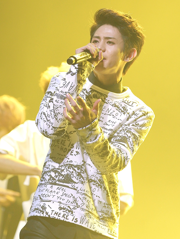 Yoseob at the Incheon Asian Games on July 25, 2014.